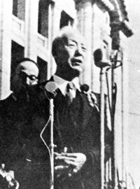 Syngman Rhee and Yun Chi-young